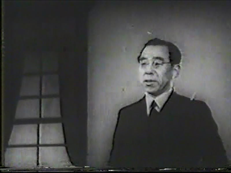 Yukitoki Takigawa (Takigawa incident) from "A Japanese Tragedy" (1946 Japanese film)